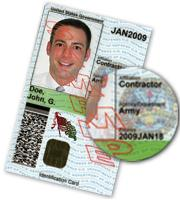 An example of a United States Department of Defense Common Access Card, from